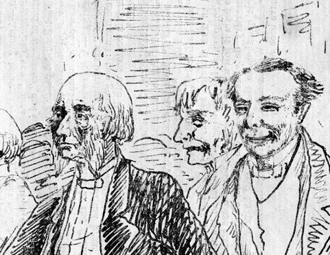 Governor P E Wodehouse depicted in a local Cape newspaper. Behind him are his chiefs of staff including Attorney General Griffiths